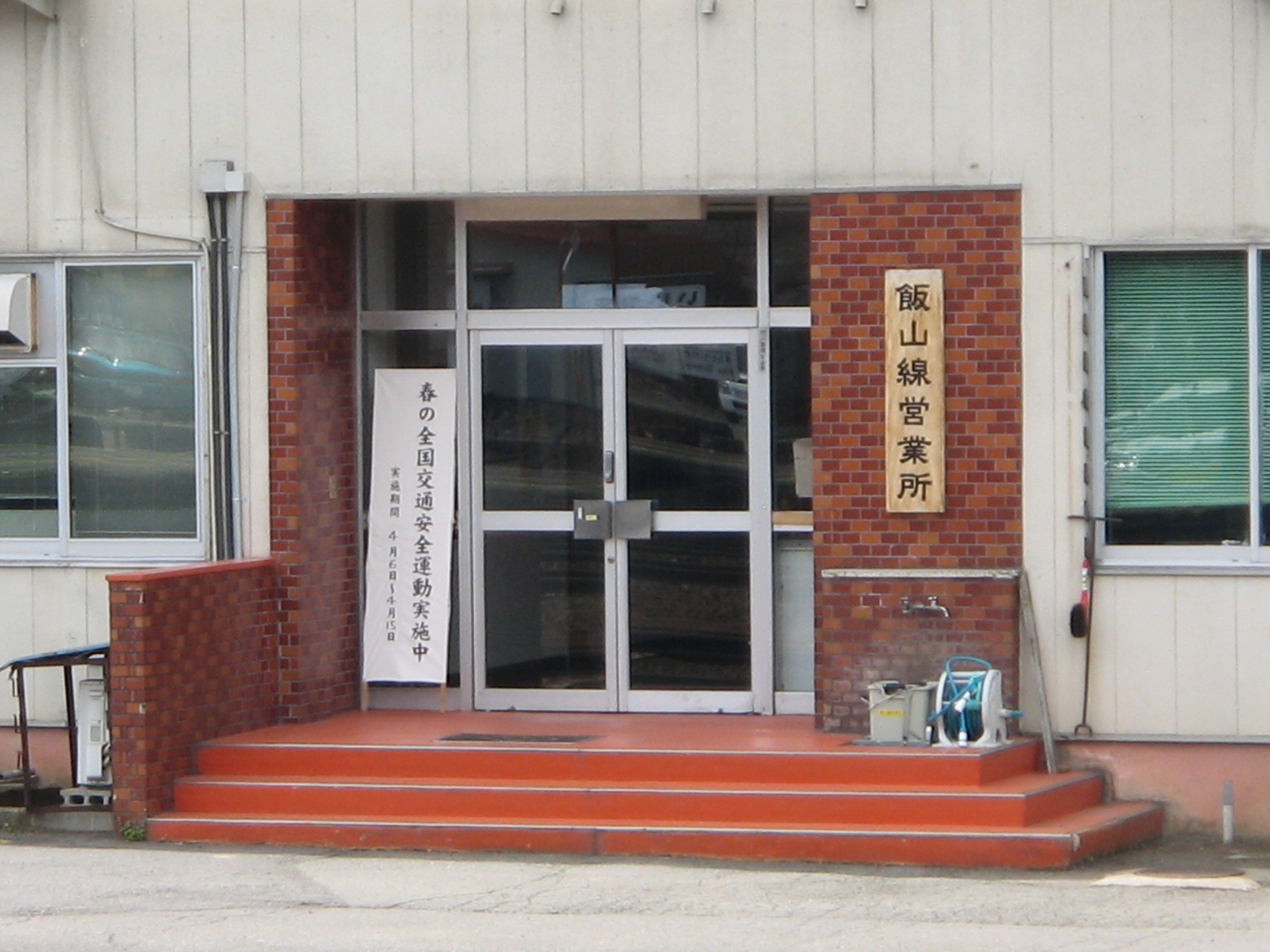 JR East Iiyama Line Office